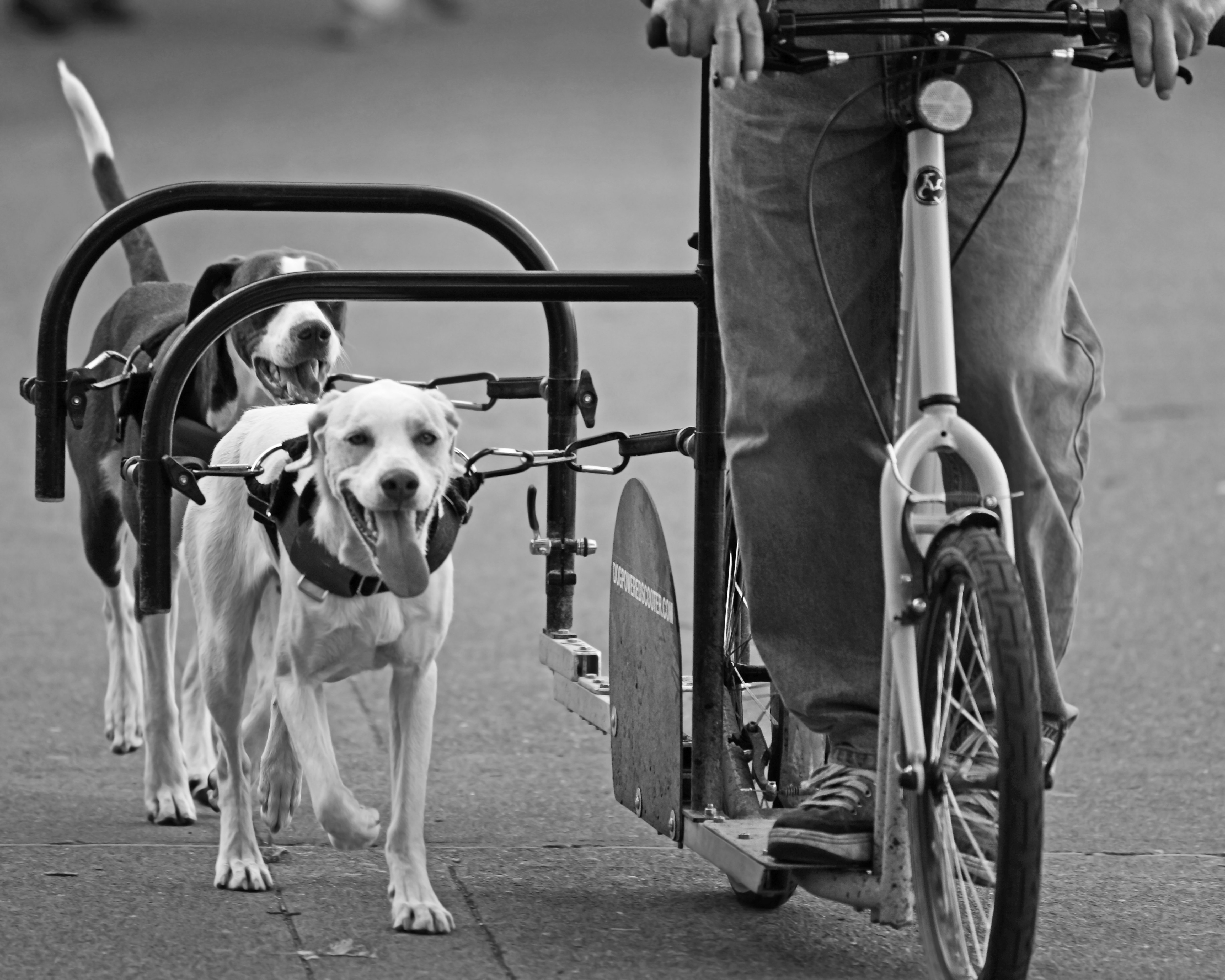 A scooter with 2 dp engines.